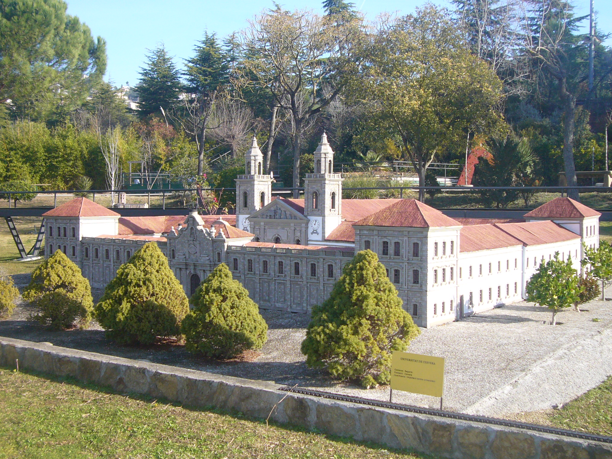 Scale model at the "Catalunya en Miniatura" miniature park : University of Cervera